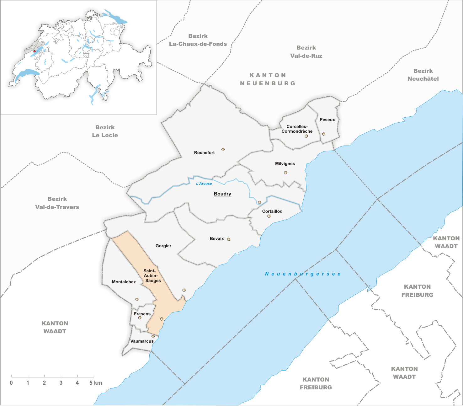 Municipality Saint-Aubin-Sauges